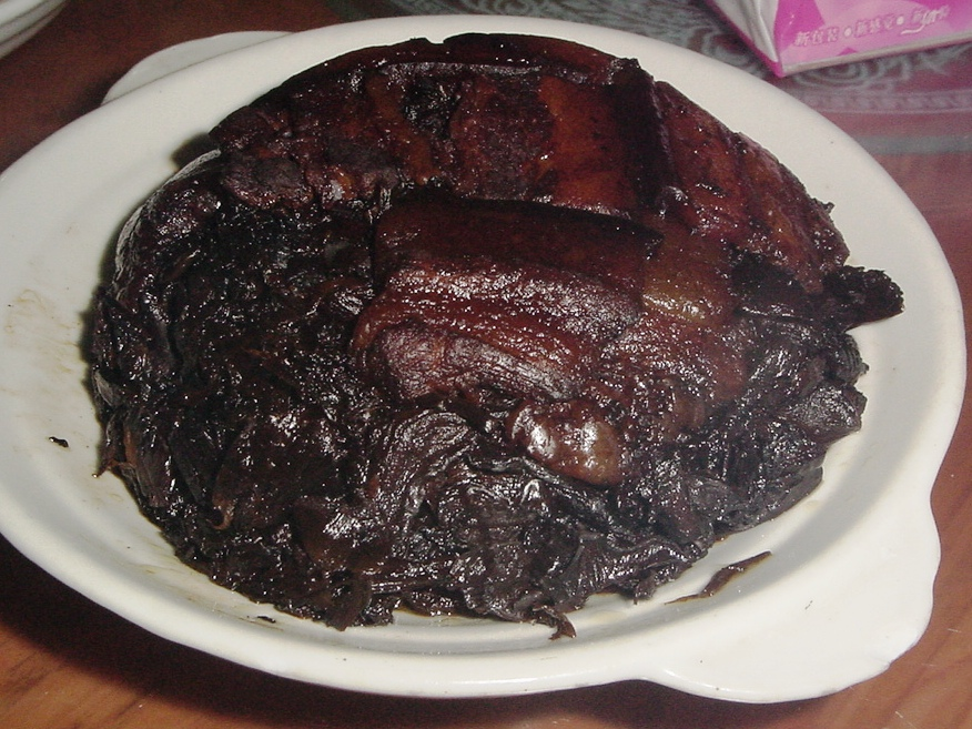 Steamed pork with dried snow cabbages in Yongding, Fujian